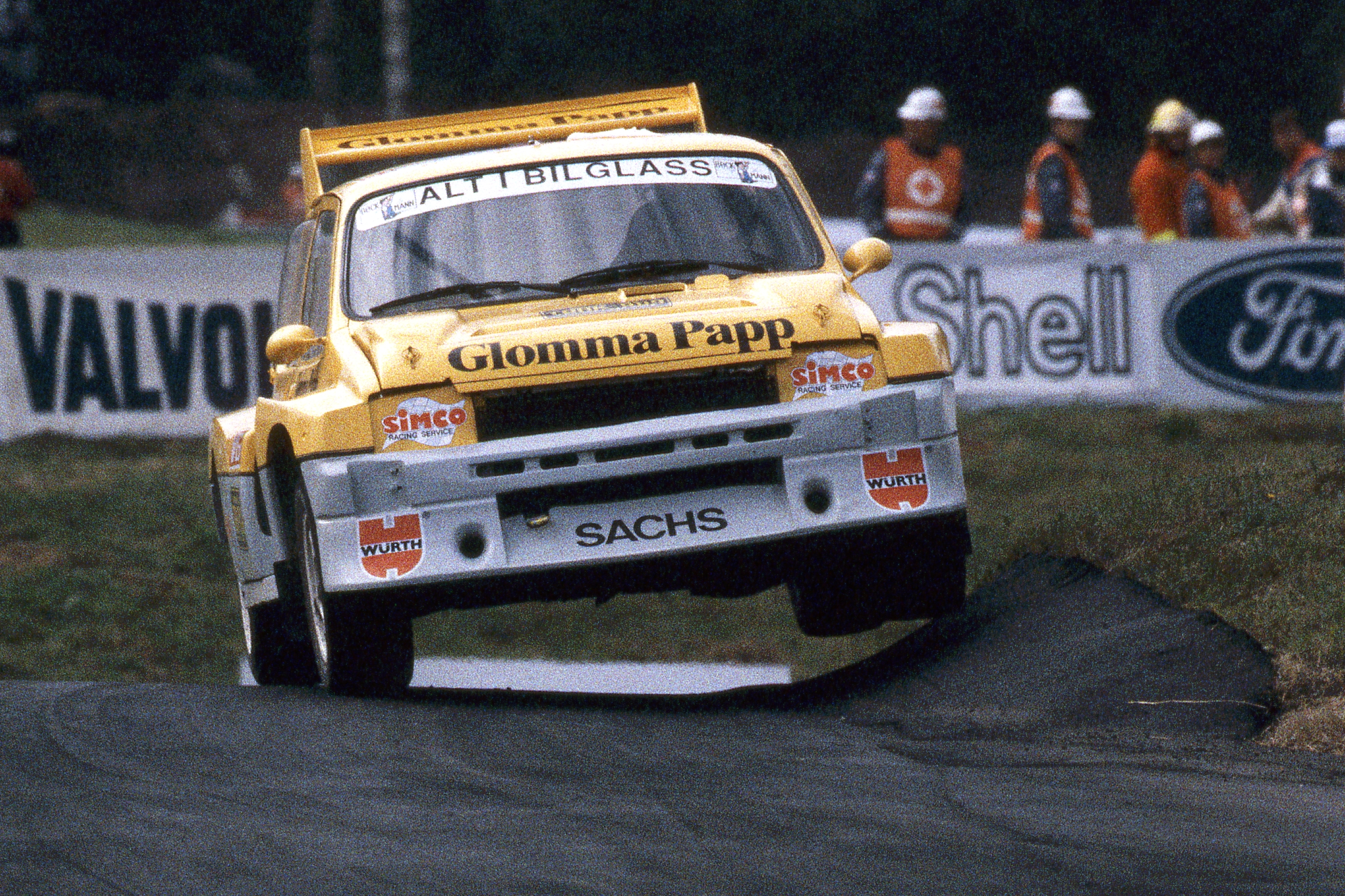 Norwegian Rallycross driver Martin Iversen and his MG Metro 6R4 pictured by me during the Norwegian round of the 1991 FIA European Rallycross Championship at the Lyngås Motorbane at Tranby i Lier near Drammen. Scan of an Agfa 1000RS slide produced with an 'Epson Perfection 4870 Photo' scanner set on 3200DPI and 24BIT.